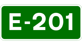 This is a symbol for the E201 Euro-route road